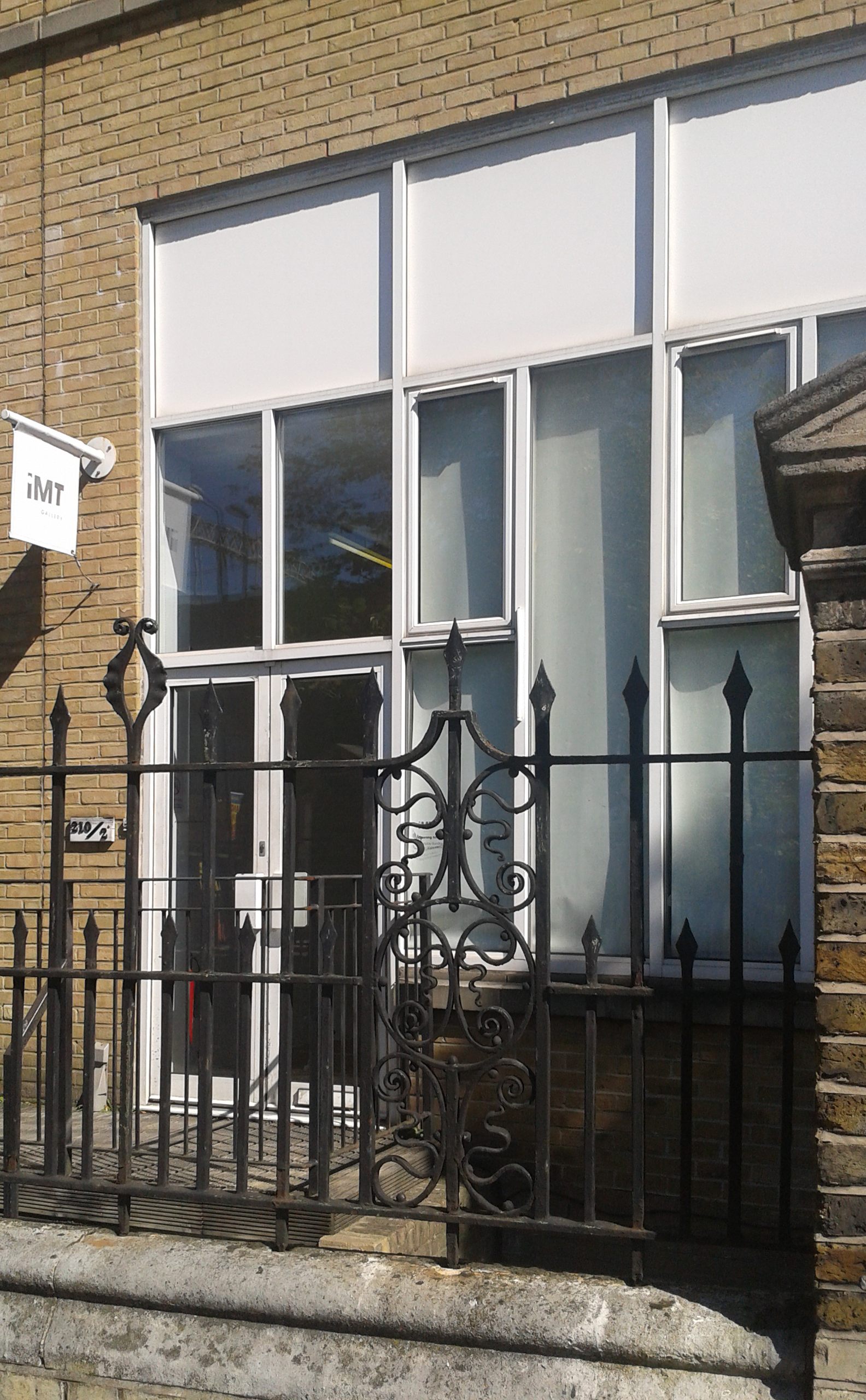 IMT Gallery 2012